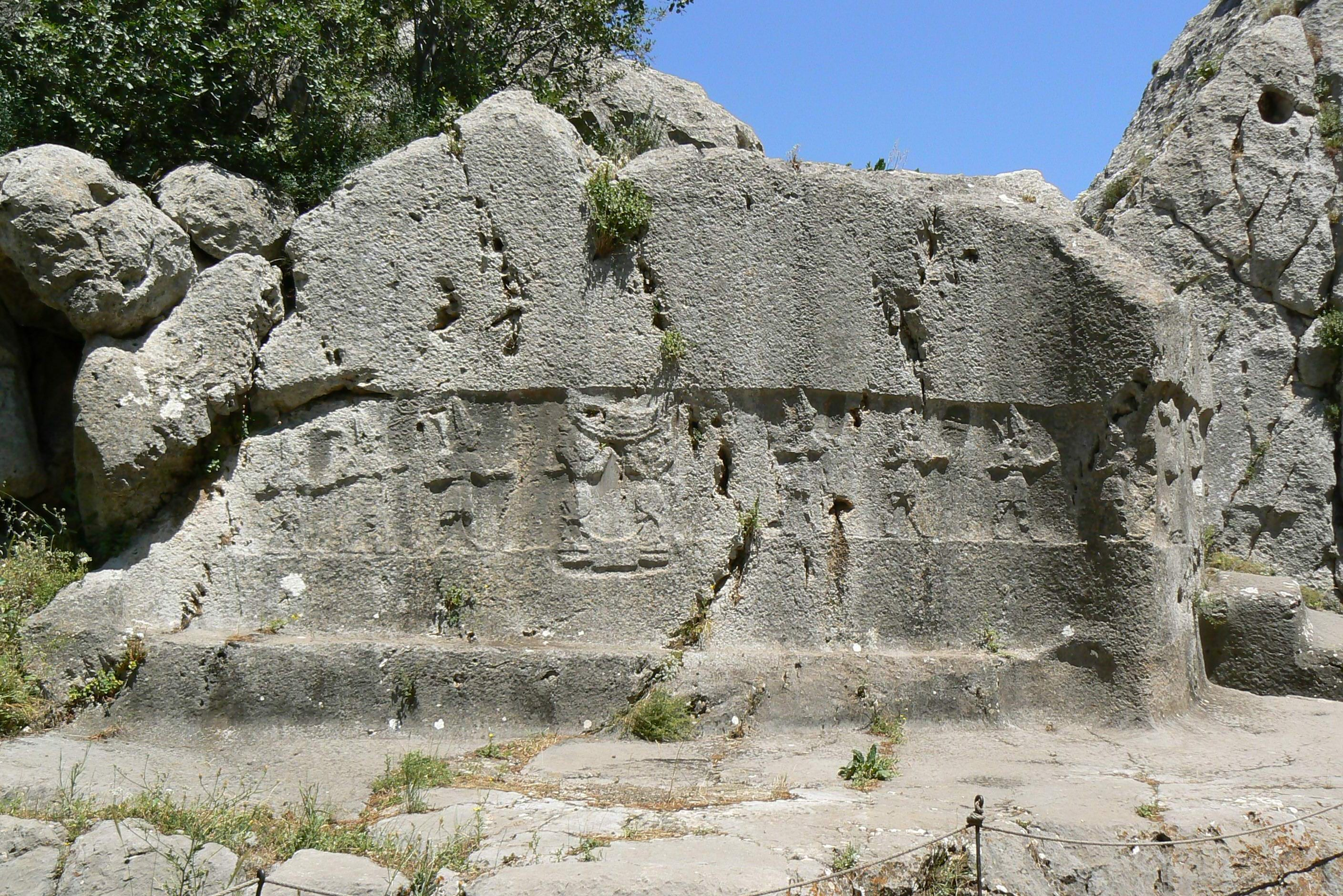 Reliefs of two three gods, two creatures, the war god Heshue, the god Pirinkir, a god with no identification and the another war god Ashtabi, Yazilikaya, hittite rock sanctuary, Anatolia, Turkey